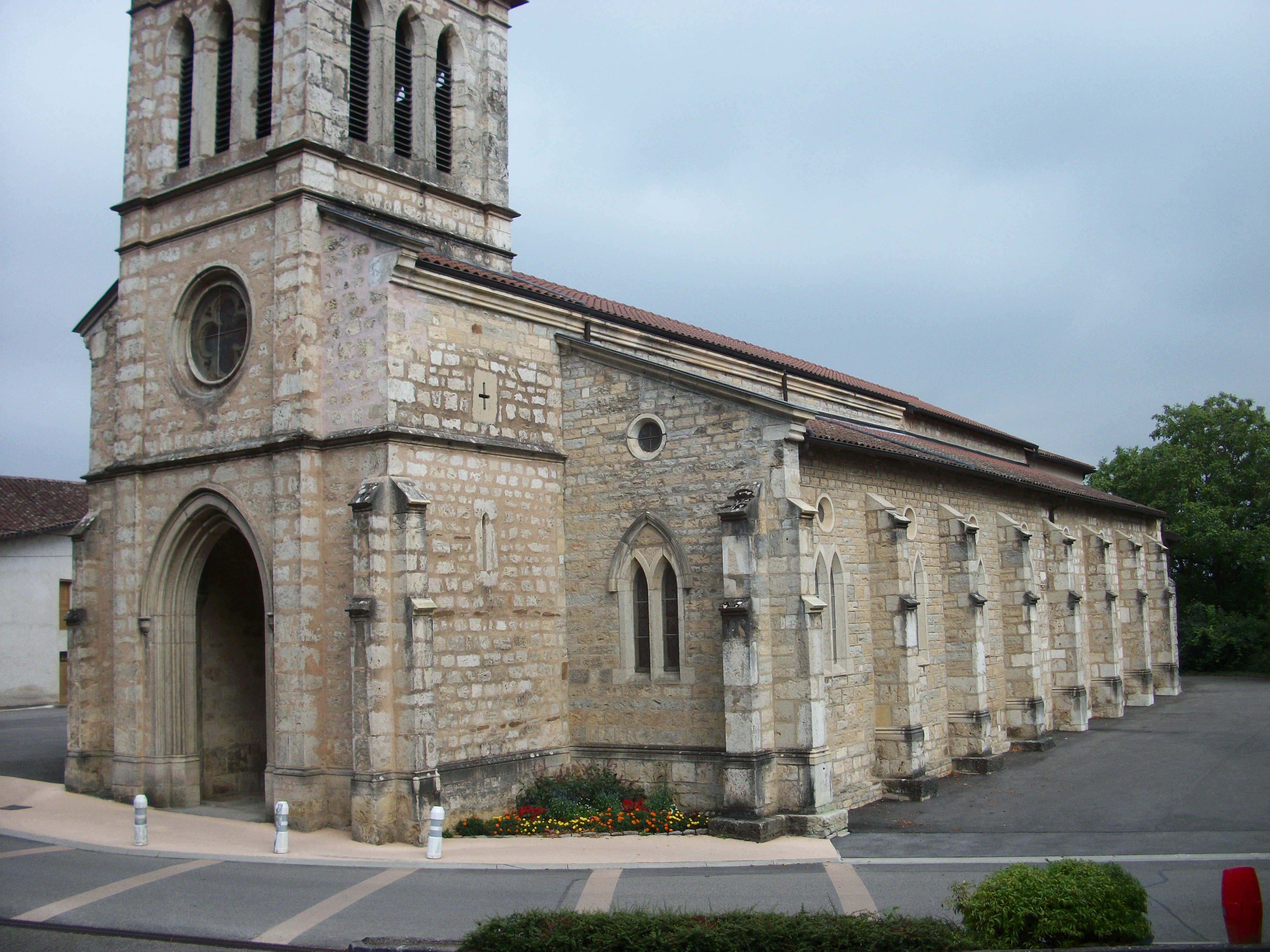 Église Saint Christophe, Bourg-Saint-Christophe, Ain, France. Object location45° 53′ 35.09″ N, 5° 09′ 51.41″ E